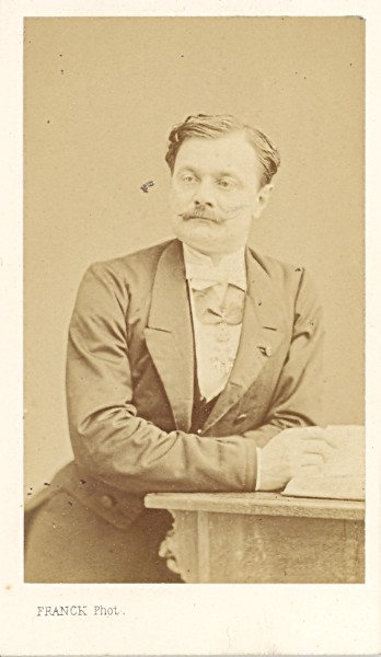 The French politician Jerome David (1823-1882)